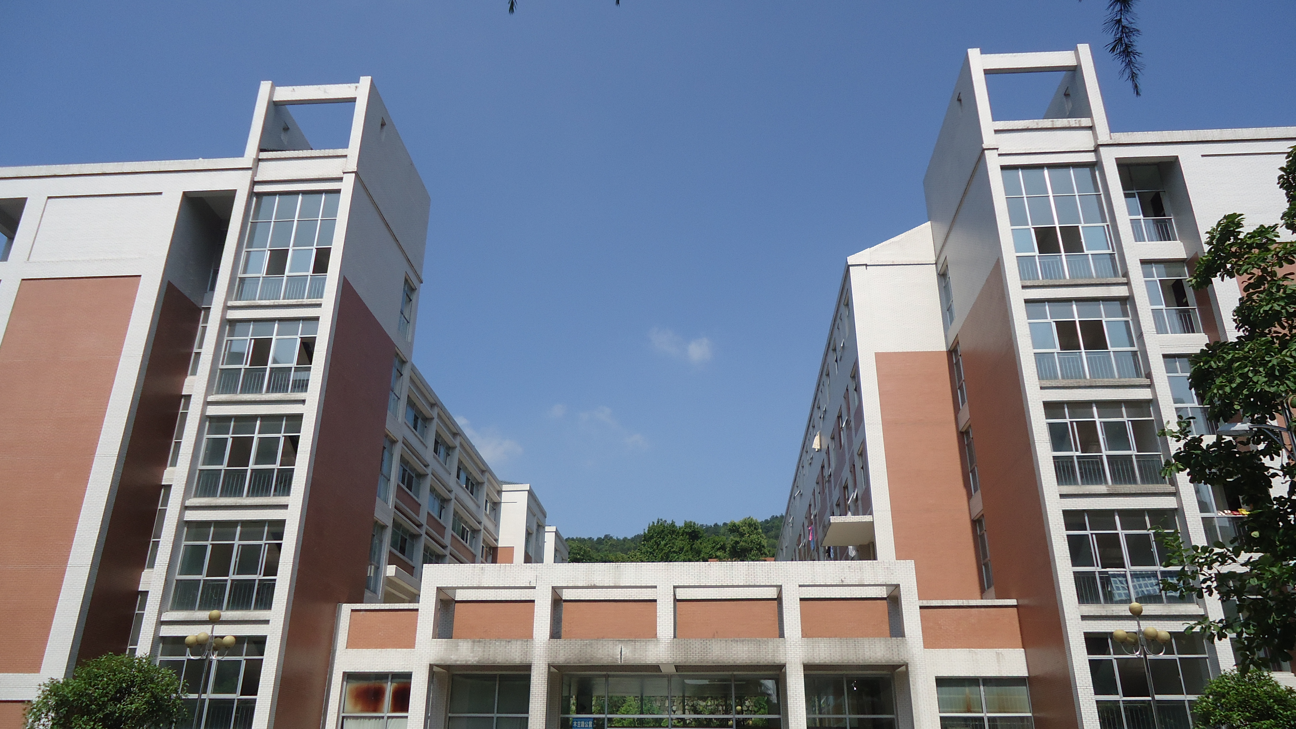 Hunan Normal University,founded in 1938, is a higher education institution located in Changsha, Hunan Province, People's Republic of China. The University is a national 211 Project university, one of the country's 100 key universities in the 21st century that enjoy priority in obtaining national funds.